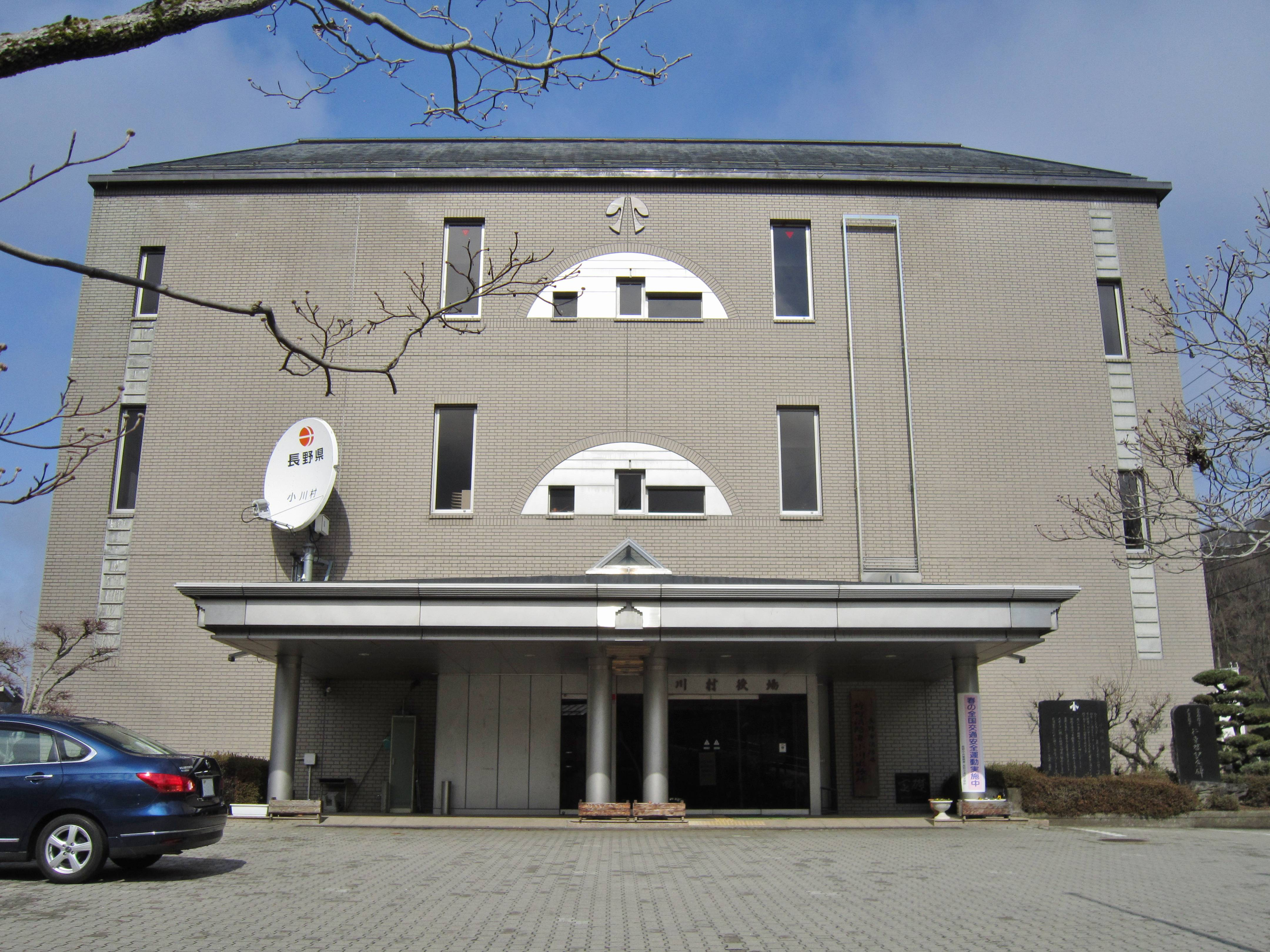 Ogawa village office.